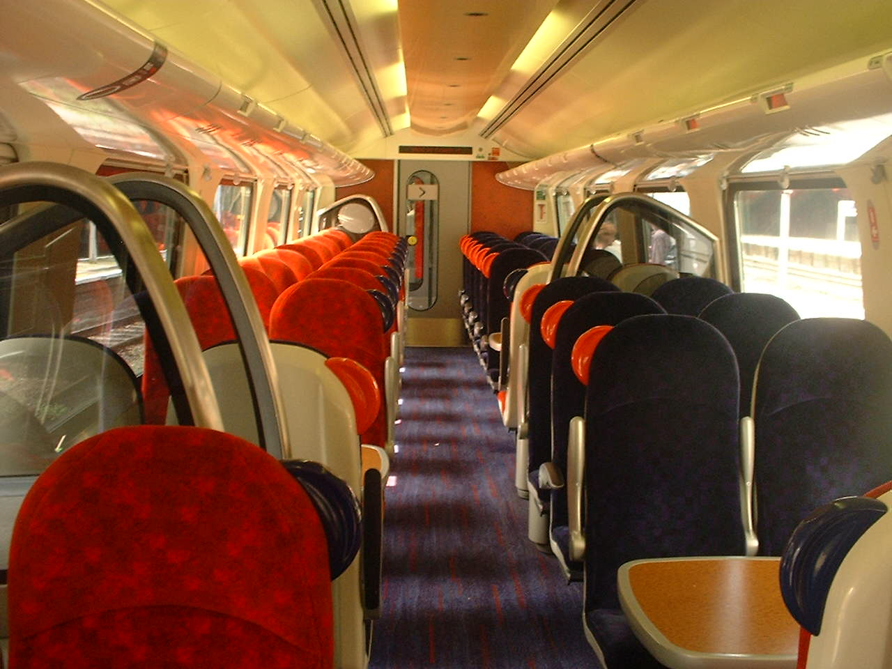 It is a picture of the interior of a Virgin SuperVoyager